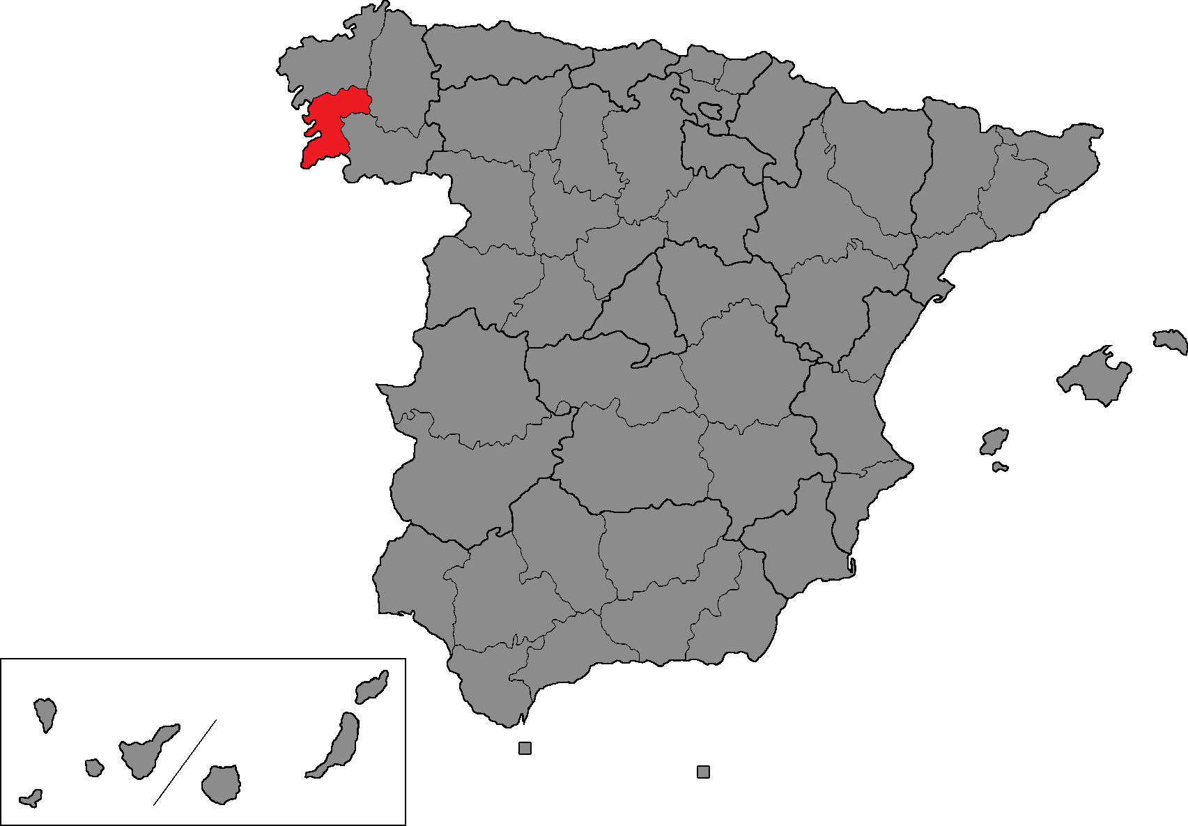 Spanish Congress of Deputies district of Pontevedra.